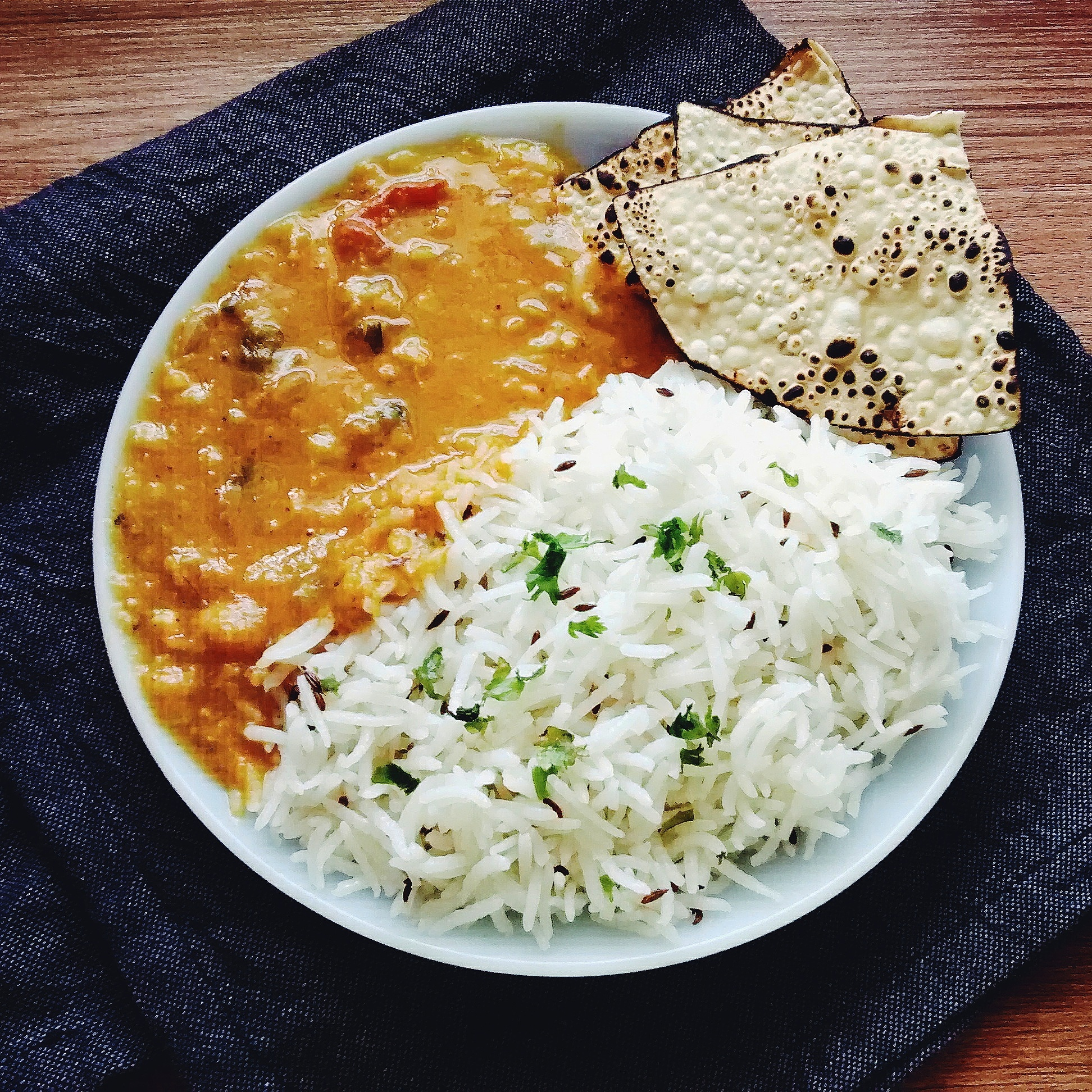 Indian Food. Indian Curry. Tasty & Comforting